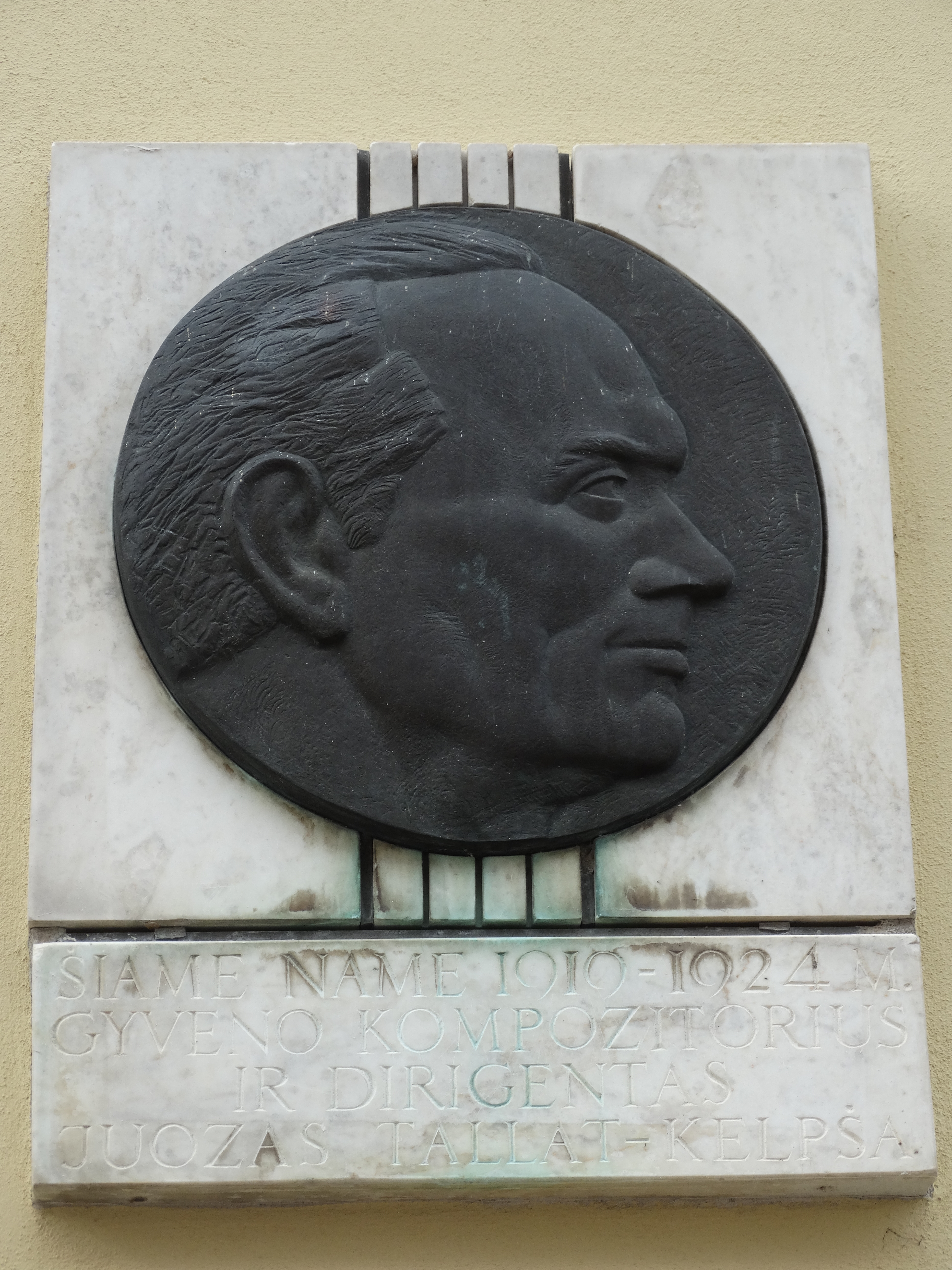 Memorial plaque to Juozas Tallat-Kelpša, Kaunas, Lithuania